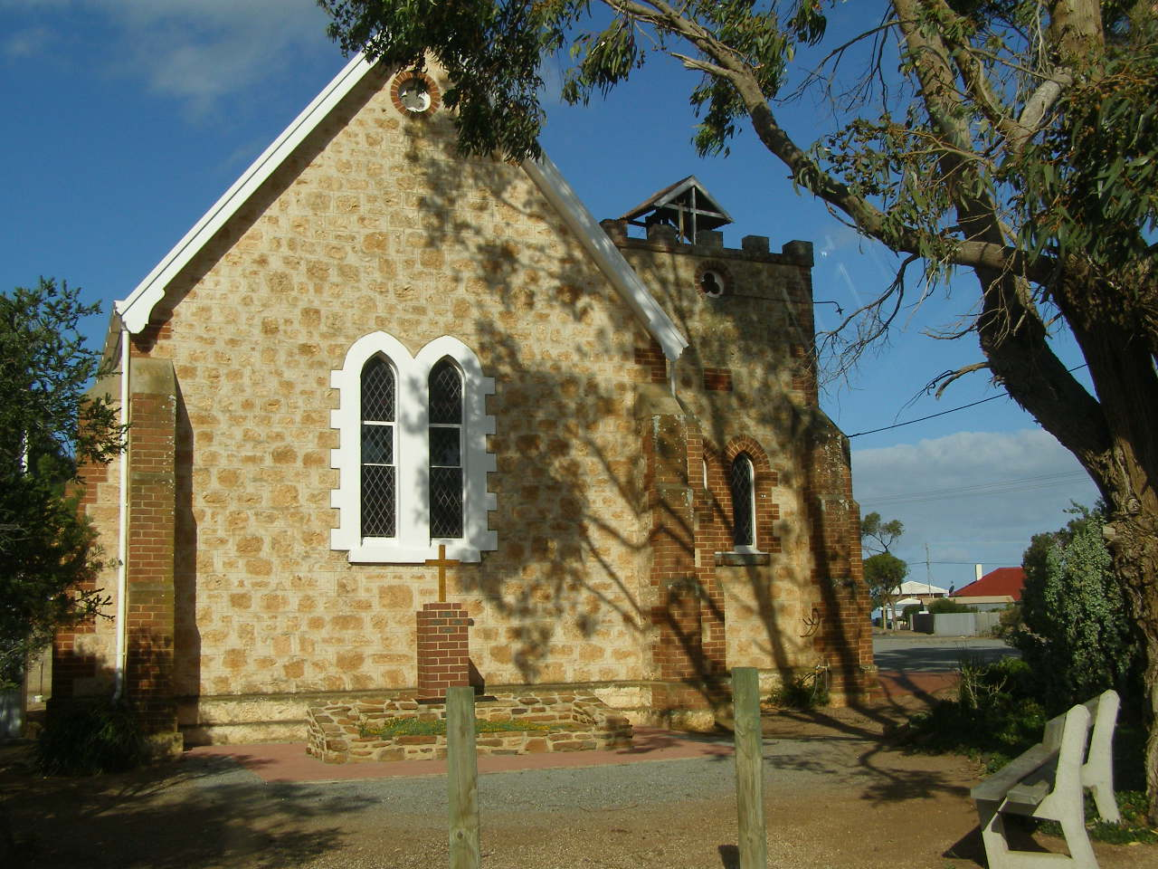 Anglican church, Tumby Bay, South Australia